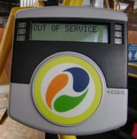 Translink go card reader located on all busses and ferries in south-east Queensland